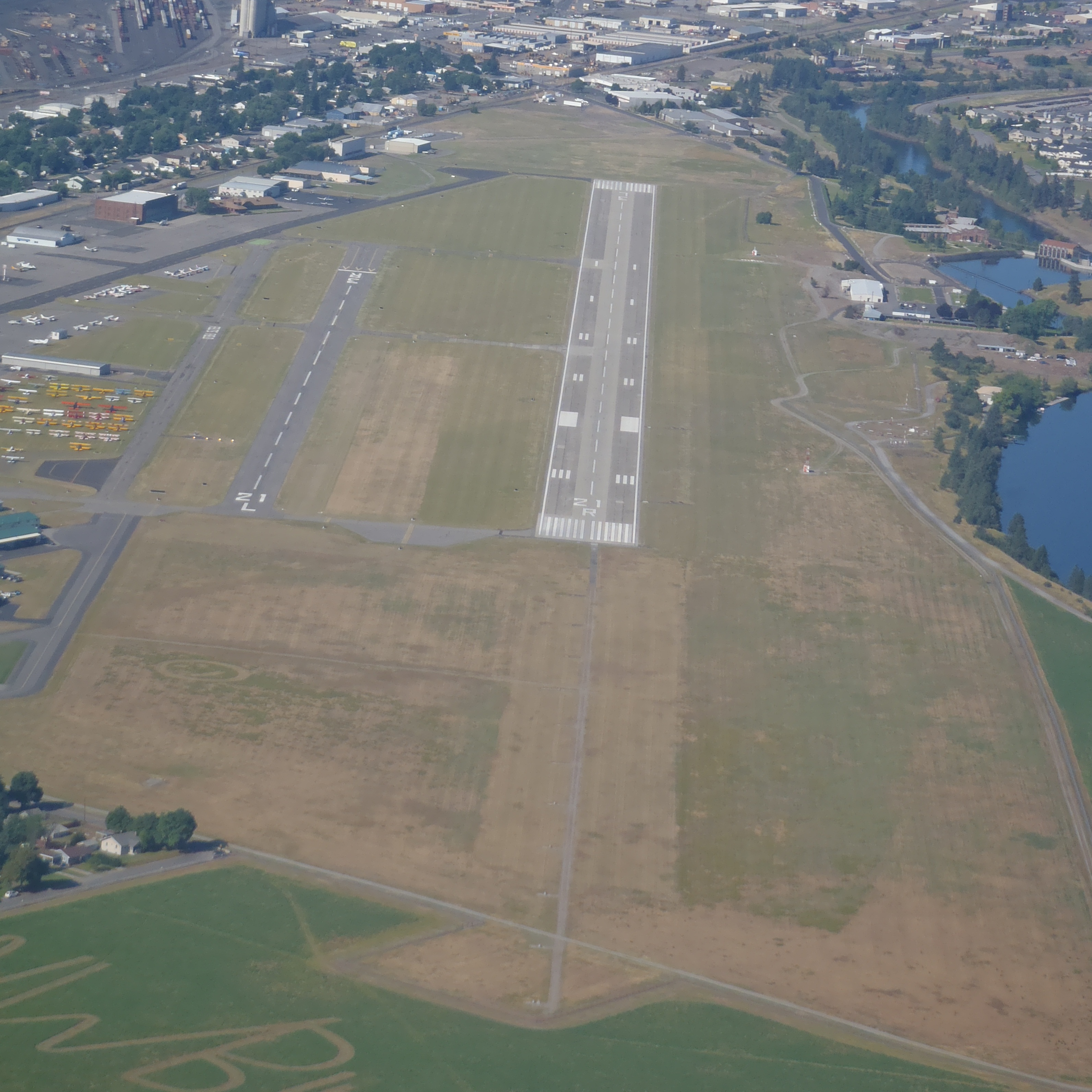 View of the Felts Field airport from East